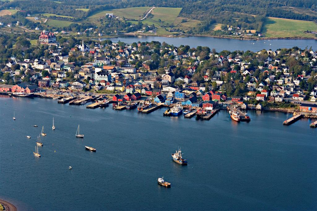 Aerial photo of Lunenburg, Nova Scotia.